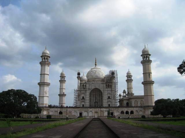 the bibi ka maqbara at aurangabad